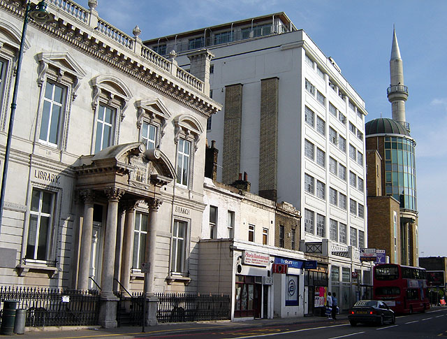 Haggerston library (now disused) and mosque (background, with minaret), Kingsland Road, Hackney, London. 3 September 2005. Photographer: Fin Fahey.